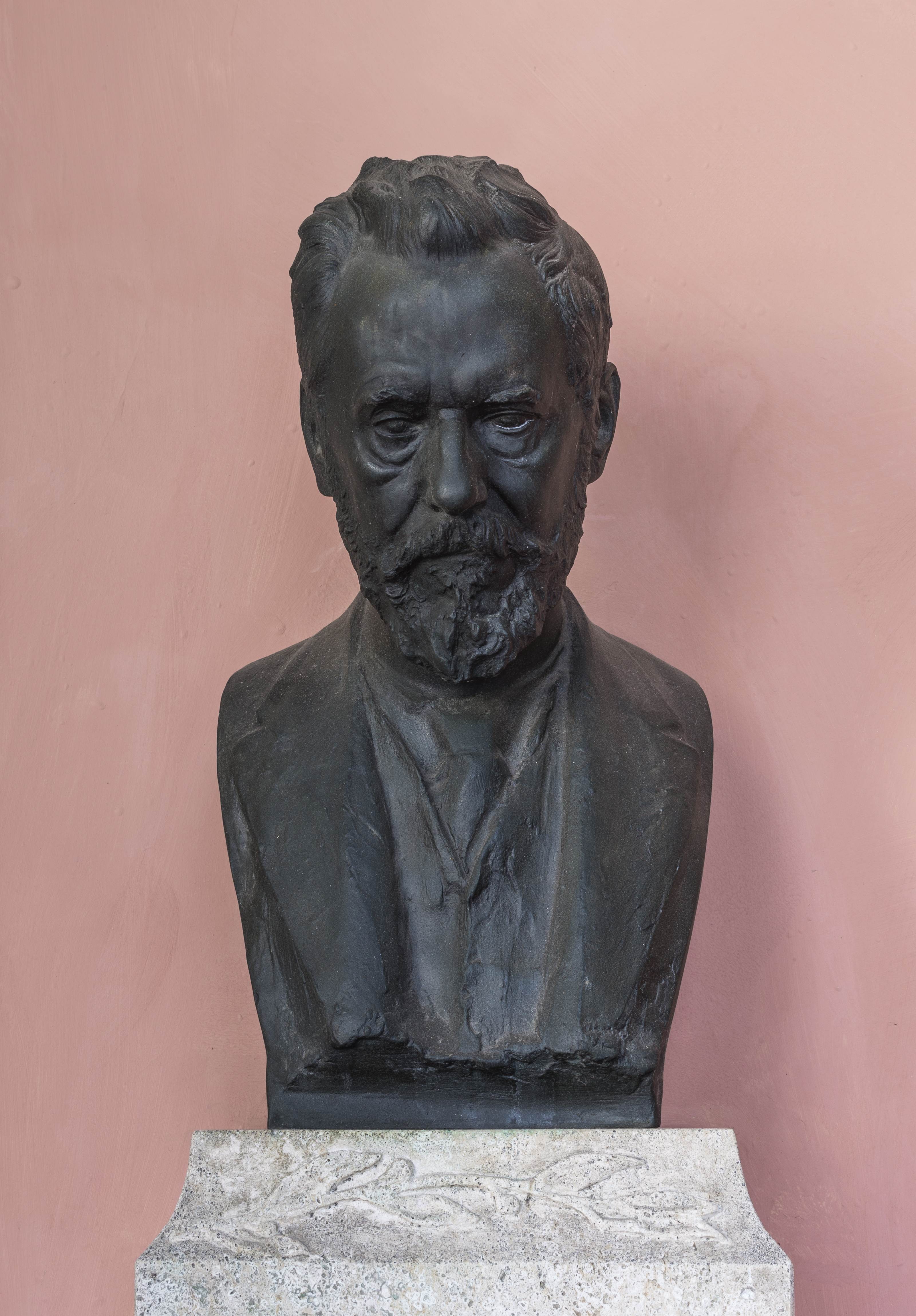 Rudolf Wegscheider (1859-1935), bust (bronze) in the Arkadenhof of the University of Vienna, (Maisel# 38). Artist: Heinrich Zita (1882-1951), unveiled 1949